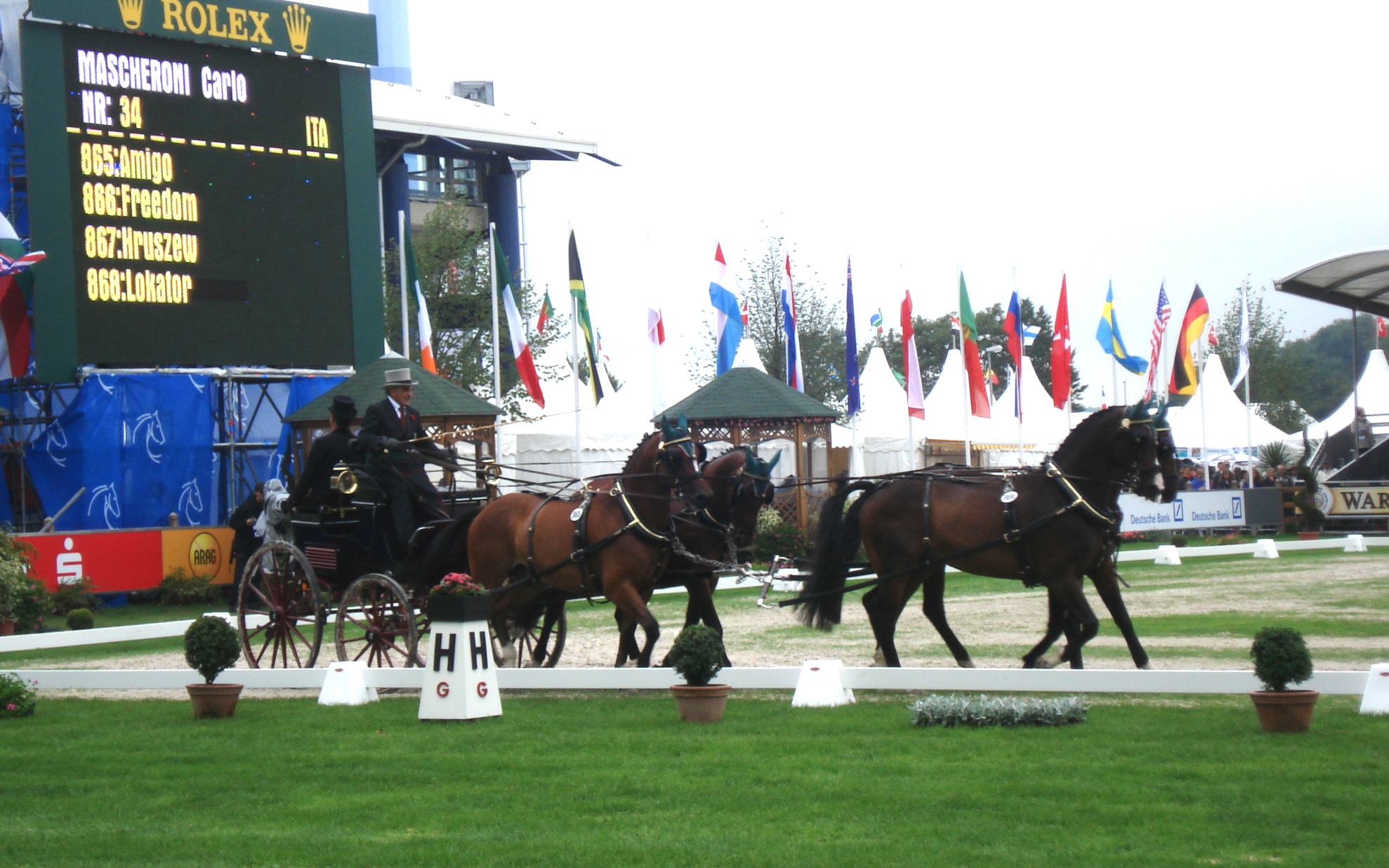 Carlo Mascheroni Weg Aachen